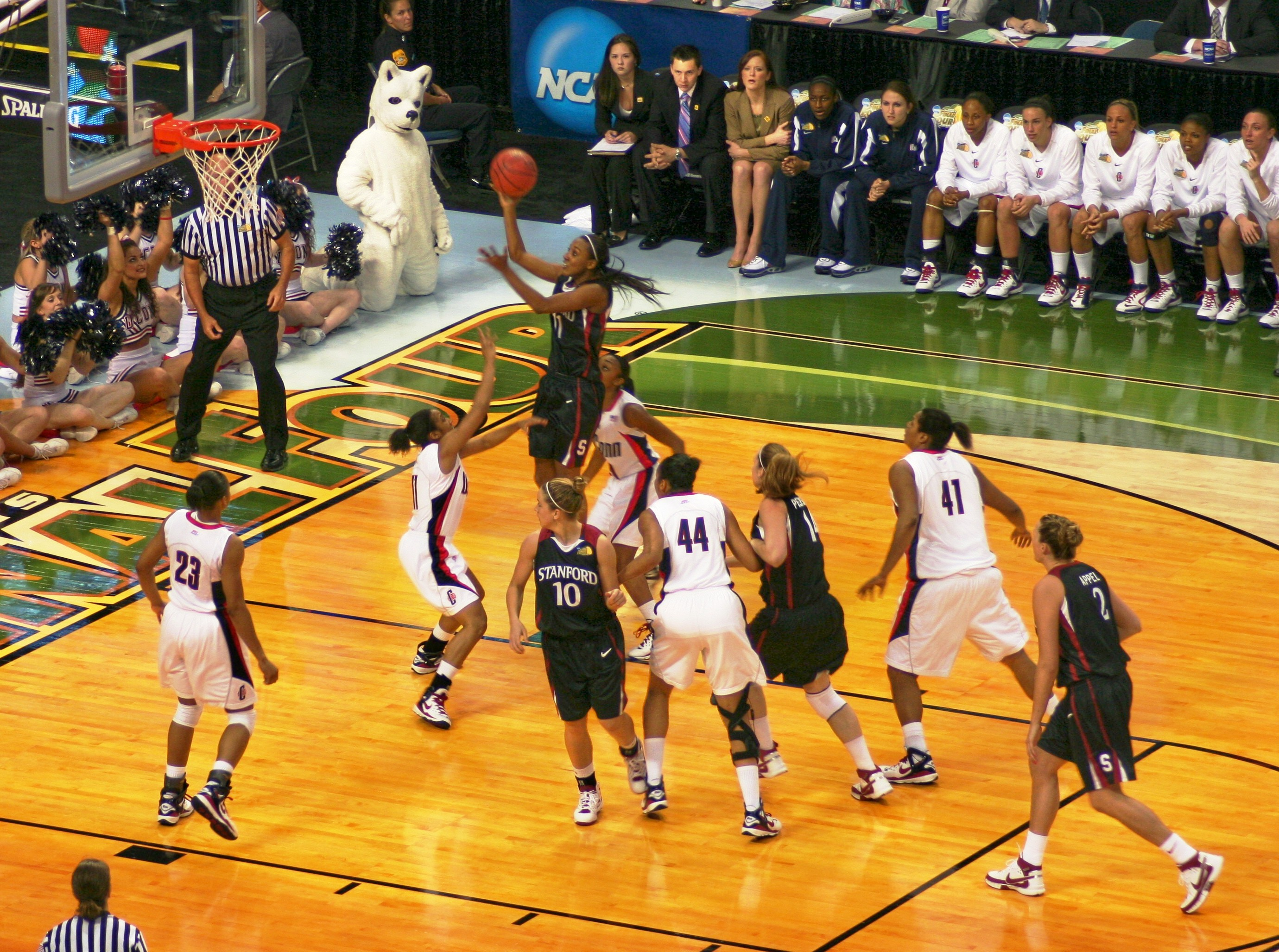 Candace Wiggins driving to the basket at the 2008 NCAA Women's Division I Basketball Tournament Final Four at St. Pete Times Forum